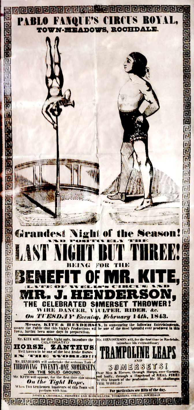 A nineteenth century circus poster. The Beatles' song "Being for the Benefit of Mr. Kite!" was inspired by this.